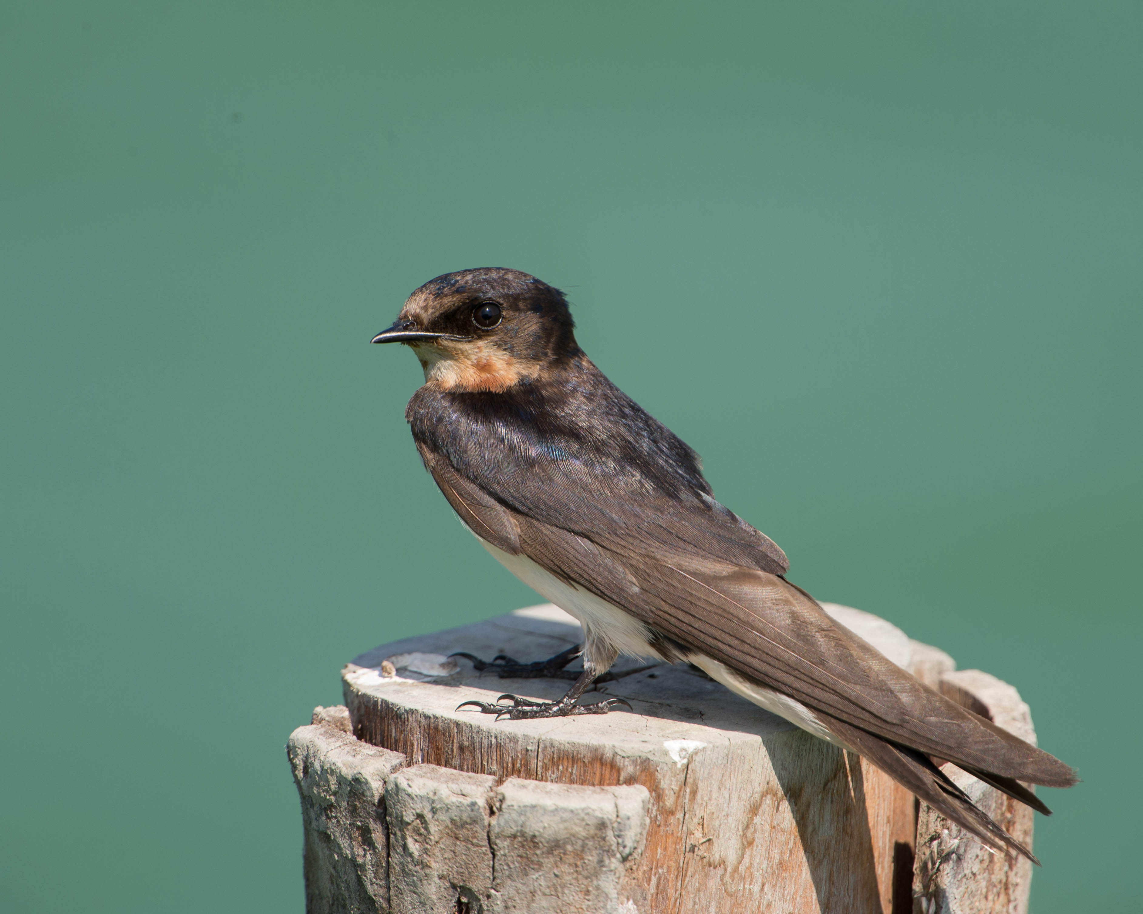 Barn Swallow (Hirundo rustica) at Leam Pak bia, Phetchaburi, Thailand